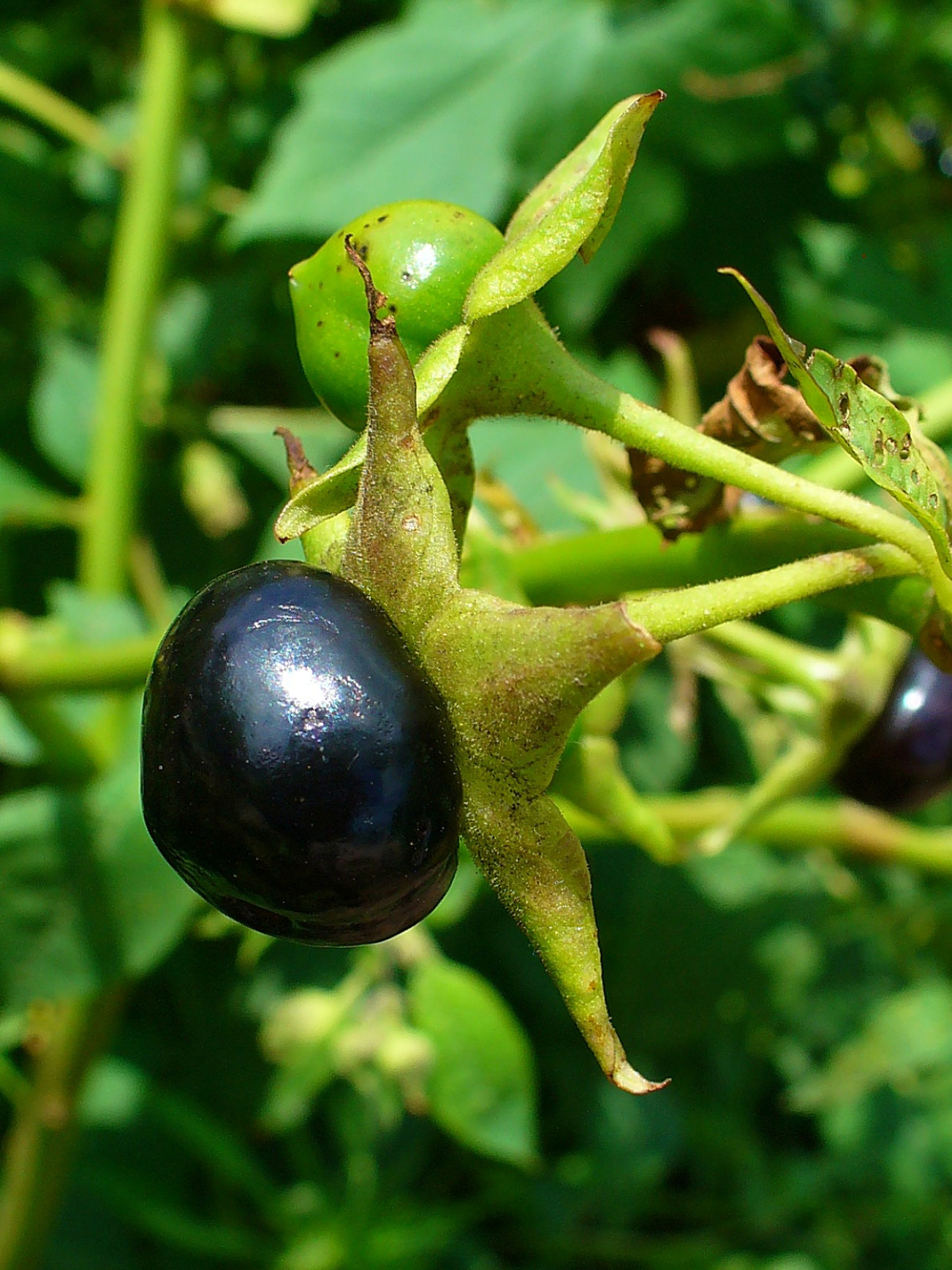 Atropa belladonna, Solanaceae, Deadly Nightshade, fruits; Botanical Garden KIT, Karlsruhe, Germany. The fresh plants are used in homeopathy as remedy: Belladonna (Bell.)